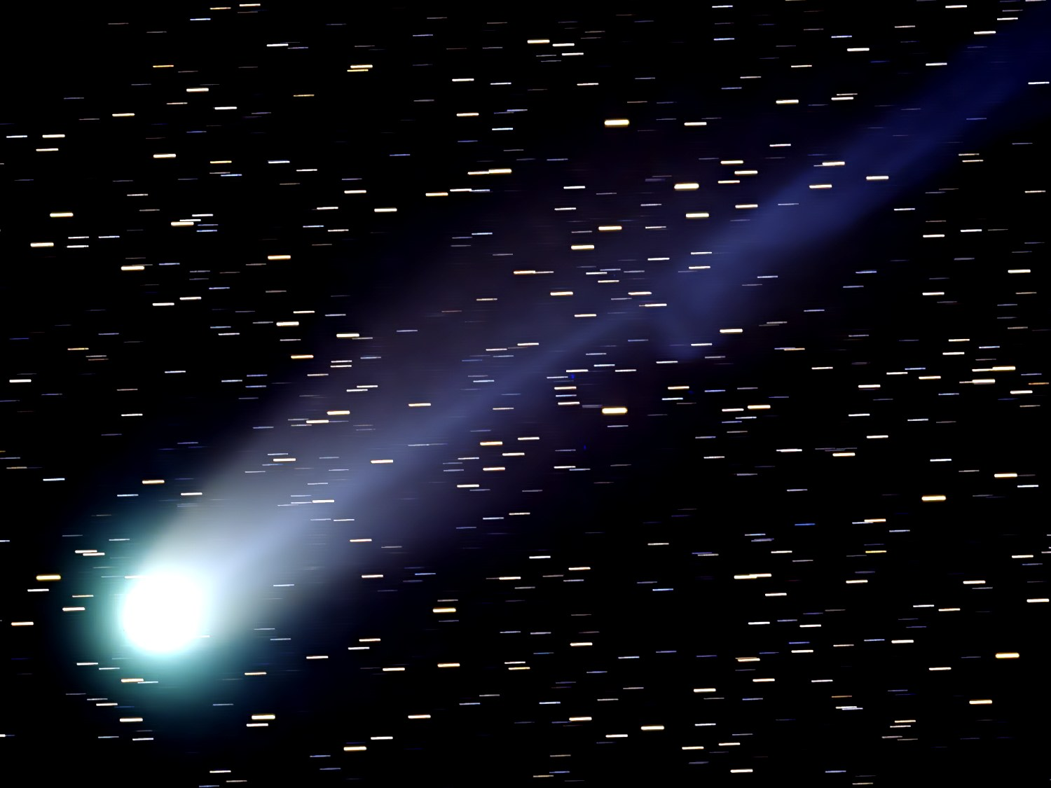 Artistic view of an image of comet C/1996 B2 (Hyakutake), taken on 1996 March 25